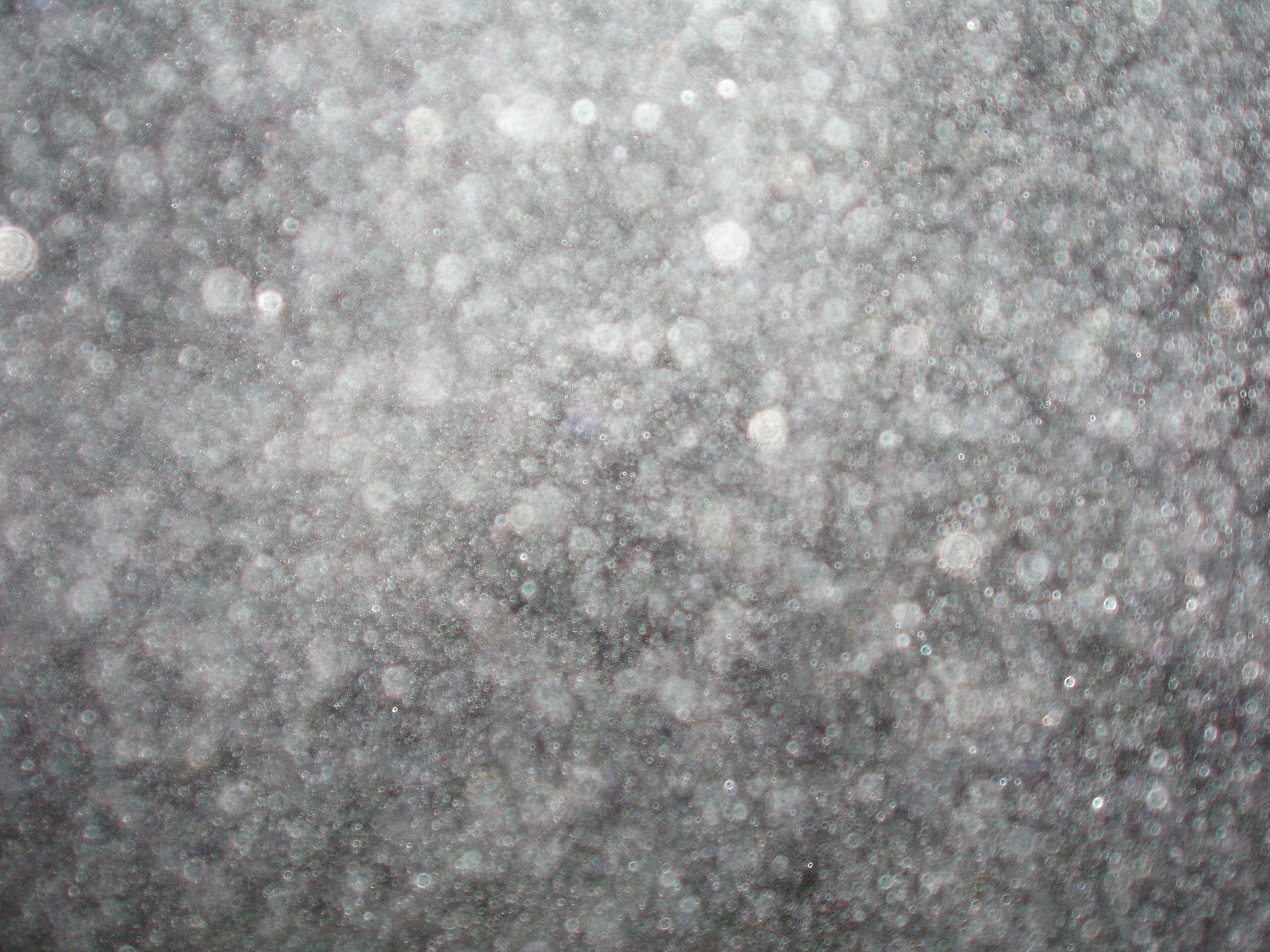 Charcoal dust, photographed at night with a flash.